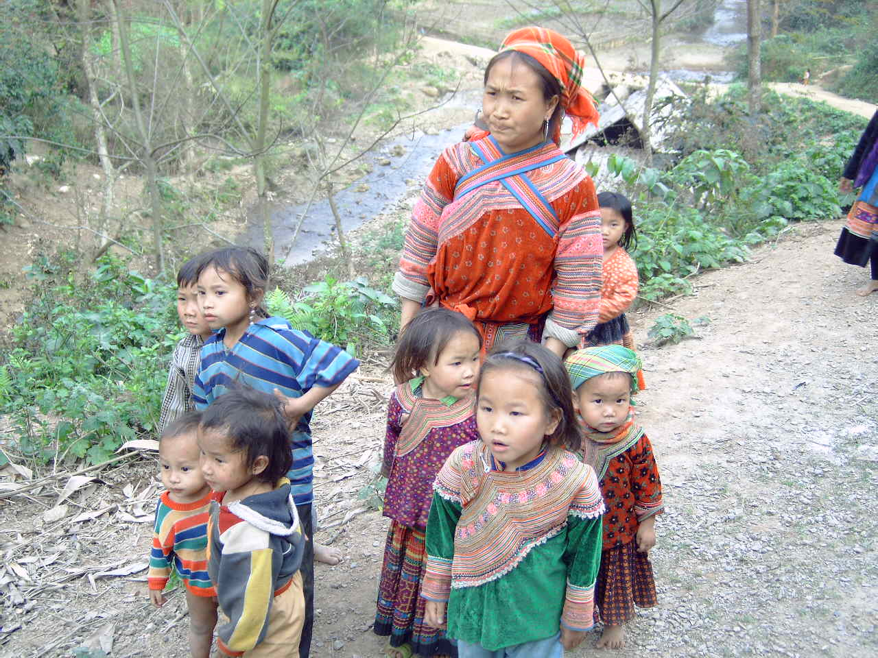 Flower Hmong Woman with Children